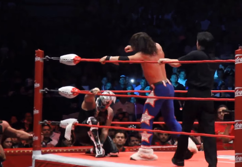 Johnny Mundo (John Hennigan) vs Pentagon Jr. at a AAA event in around June 2016-ish.